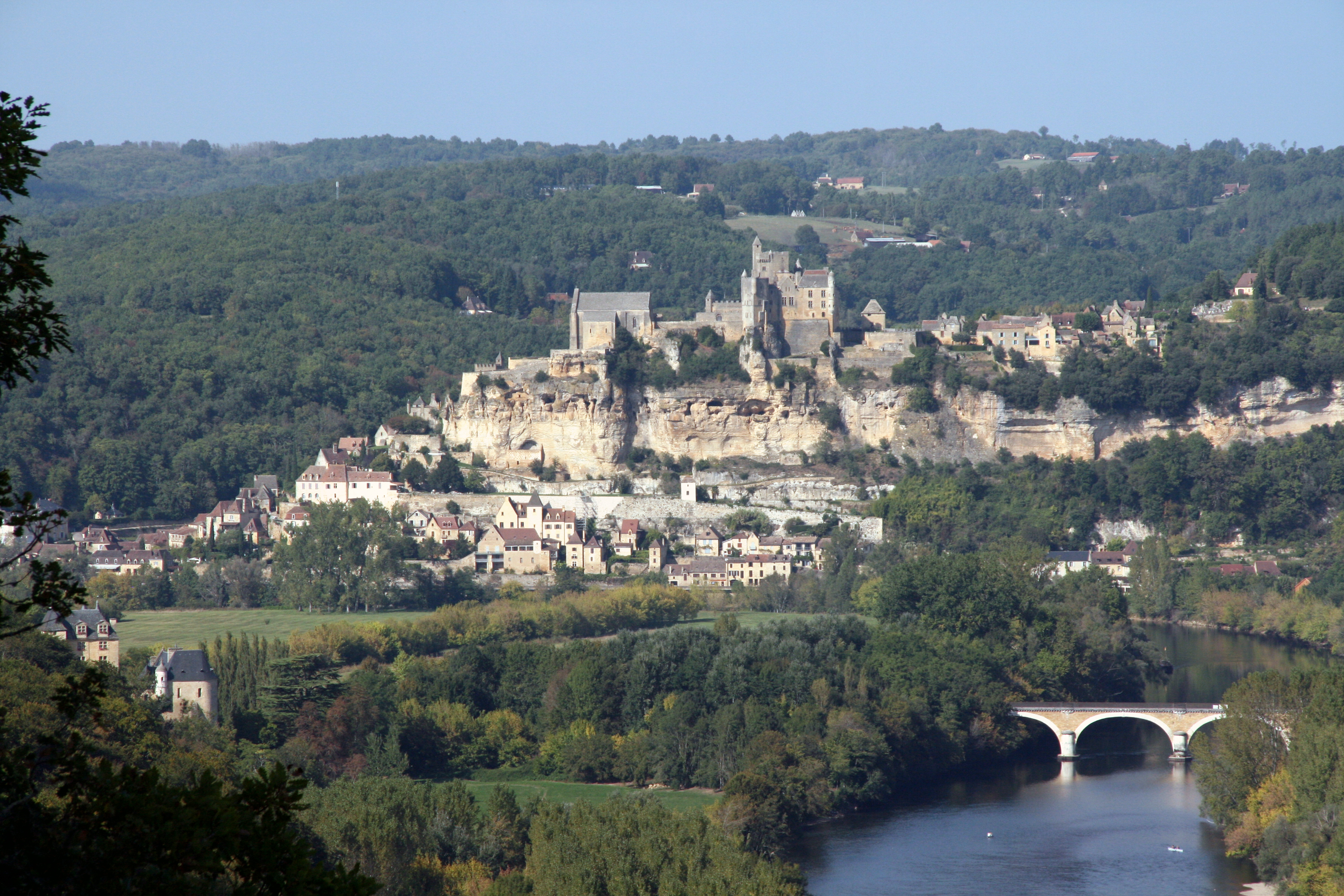 Château de Beynac and the village of Beynac, photographed from the château of Castelnaud-la-Chapelle. Dordogne, Aquitaine, France.